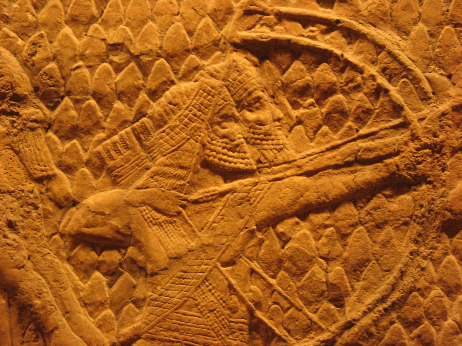 Assyrian archers ; Assyrian Relief, South-West Palace of Nineveh (room 36, panel 5-6) ; 700–692 BC.